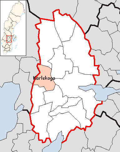 Karlskoga Municipality in Örebro County Designd by me, based on Image:Örebro County.png